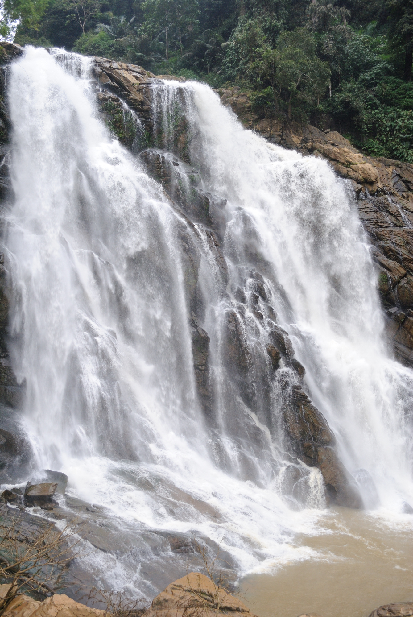 A complete view of Meenmutty Falls Wayanad during monsoon season.